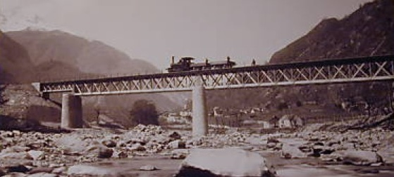 The image shows the original Lower Ticino Bridge on the southern access ramp to the Gotthard Rail Tunnel with Giornico in the background and a steam locomotive with two flatcars passing the bridge. The picture was taken before 1878 with commercial operation of this central part of the Gotthardbahn only starting in June of 1882 and the ramps and the Gotthardtunnel still under construction. The bridge shows the single beam truss construction that was typical for the majority of the original bridges on this line, and which with increasing traffic loads had to be fortified with supporting fishbellies or arches until they eventually had to be replaced with reinforced concrete or other bridges. The routes from Giornico to the neighboring stations of Lavorgo and Bodio exhibit the steepest inclines of the Gotthardbahn of up to 27‰. The original is a photograph by Adolphe Braun published in a probably small edition book "Photographische Ansichten der Gotthardbahn" (58 photographs (28x23 cm2) mounted on each single page plus one two-page panorama), published around 1875 or shortly thereafter. The exact date of publication is not clear. The original in the book was photographed at an angle and the resulting image was clipped to show central detail and to reestablish a rectangular frame. The resulting image is somewhat distorted with respect to the original photograph by Adolphe Braun and very much reduced in resolution. The German caption of the photo in the book reads "Untere Tessinbrücke mit Giornico" (Lower Ticino Bridge with Giornico).